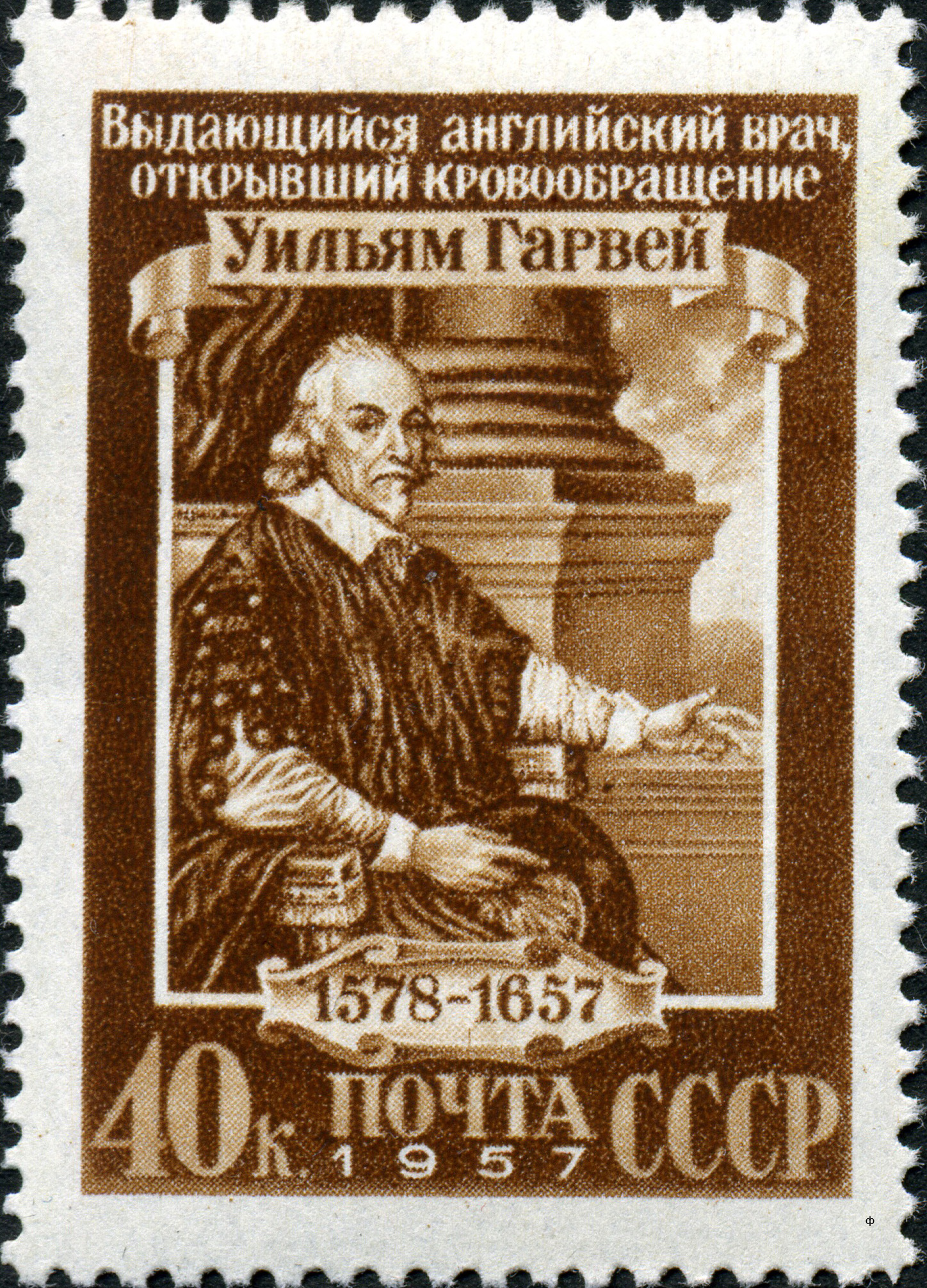 Outstanding English physician who discovered the blood circulation. USSR stamp, 1957.